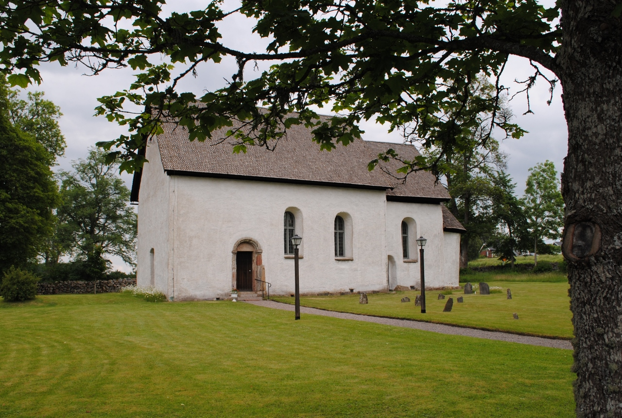 Myresjö old Church.Exterior.